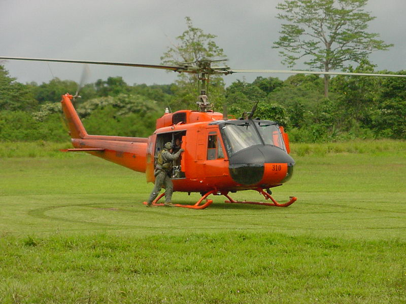 Photographer - Simon Woolley Personal use only